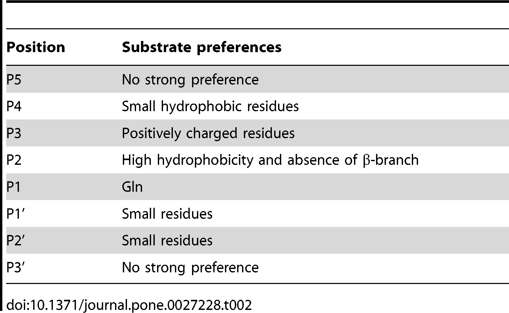 Table of substrate specificities that are common among all coronavirus 3CL proteases (3CLpro). Profiling of substrate specificities of 3C-like proteases from group 1, 2a, 2b, and 3 coronaviruses.